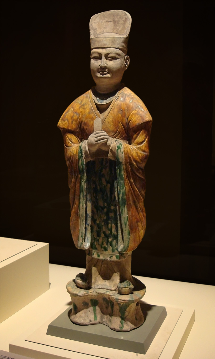 Tri-coloured figure of a civil official Tang Dynasty (A.D. 618 - 907) Excavated at Xi'an, Shaanxi Province, 1957 This figure depicts the typical clothing of a Tang Dynasty official; tall hat, wide-sleeved outer garment tied at the waist with a wide belt, and rectangular "kerchief" in front. A white inner gown hangs over his square shoes. He solemnly holds a tablet to his chest, preparing to provide a report to his superiors.